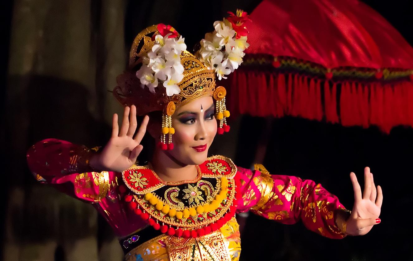 Sanata Dharma University's Sekar Jepun, a Balinese dance troupe, celebrates its 17th anniversary. This dancer is performing the Condong dance. Derived from File:17 Years of Sekar Jepun 2014-11-01 72.jpg